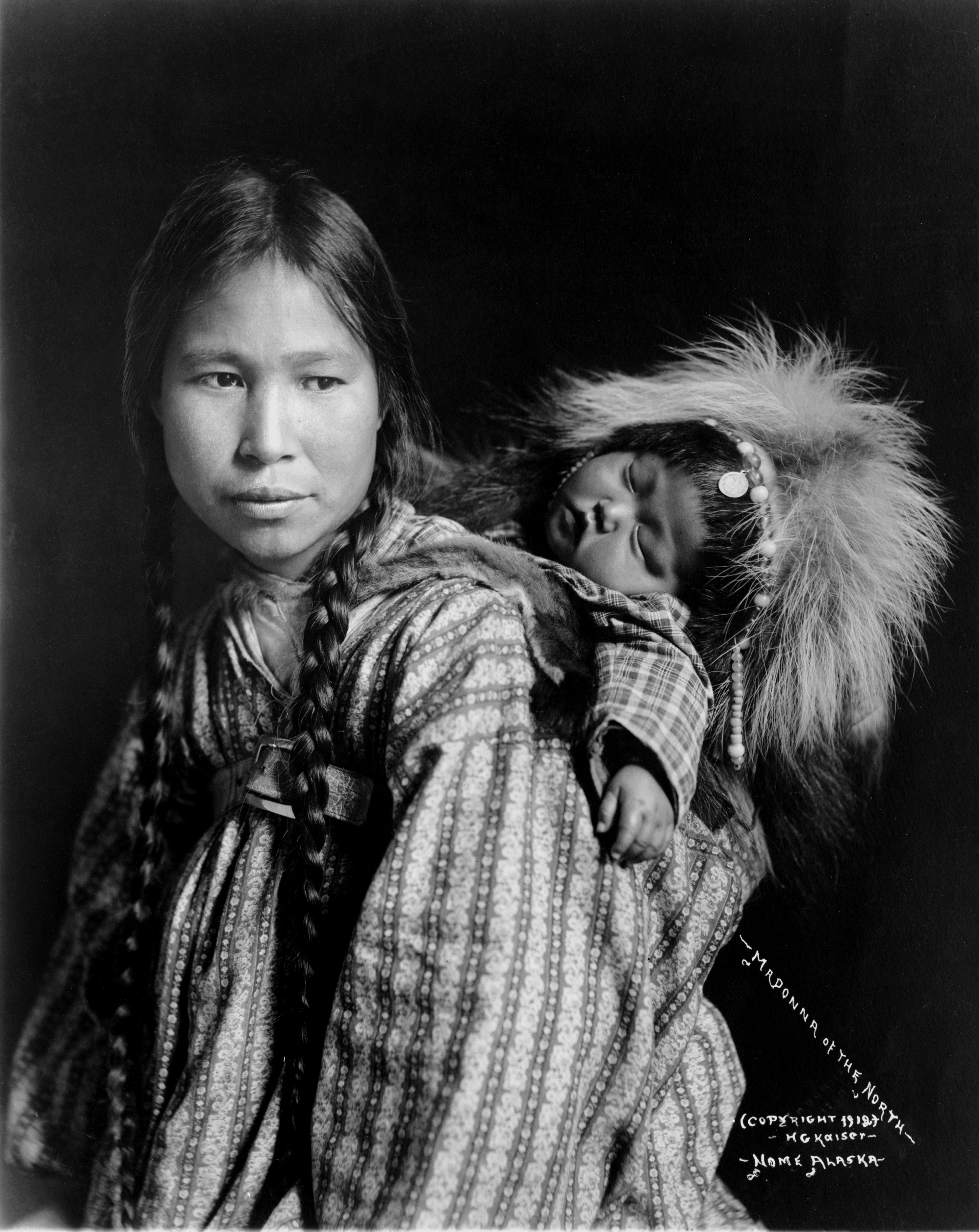 Inuit woman with papoose on back, Arctic Alaska.